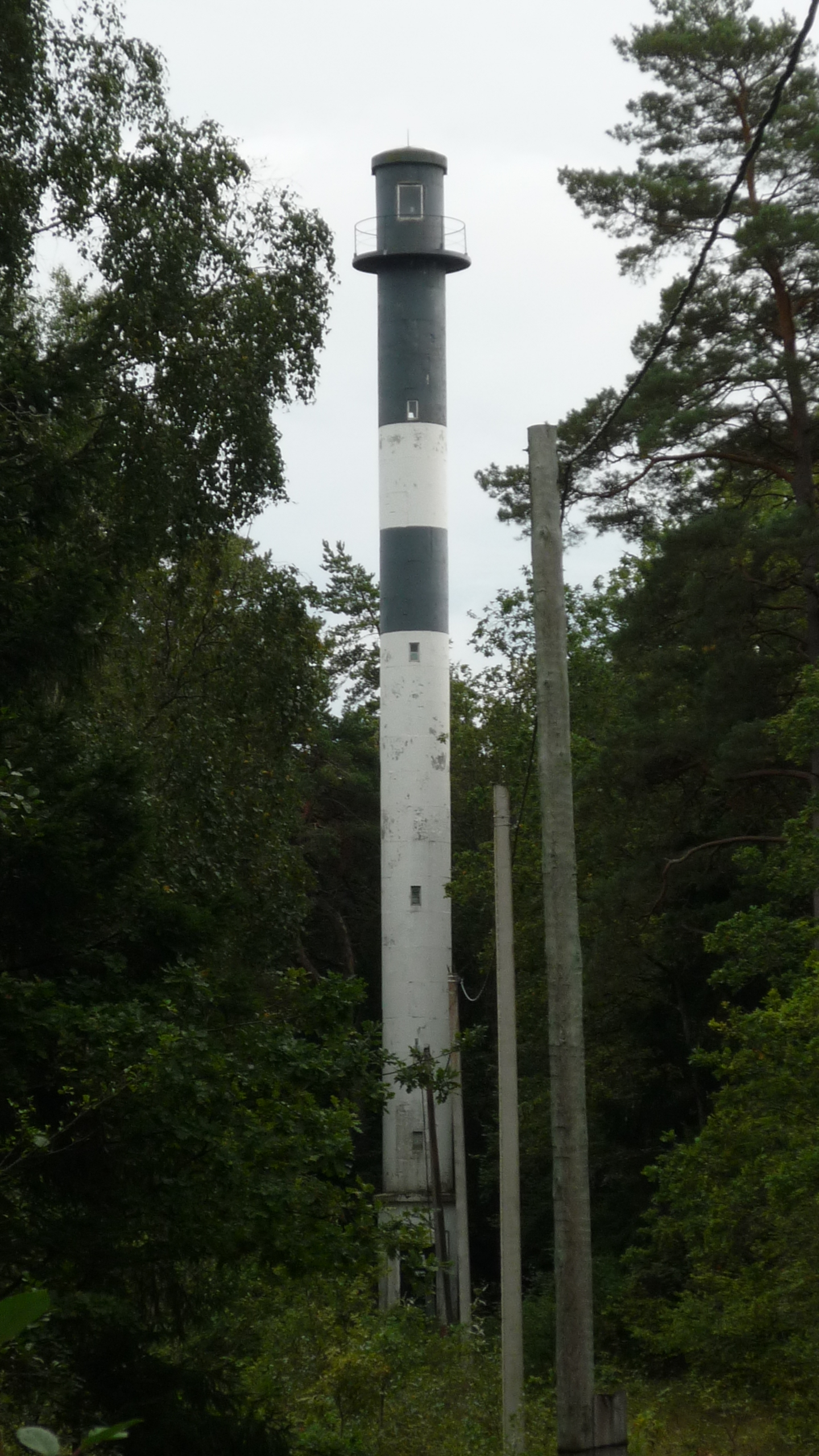 Paralepa ldg.l. rear lighthouse. South coast of Haapsalu bay. Ridala parish, Lääne county, Estonia.